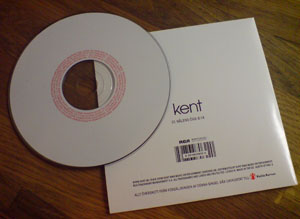 Back of the single Nålens Öga by swedish group Kent. Cropped and scaled from original.